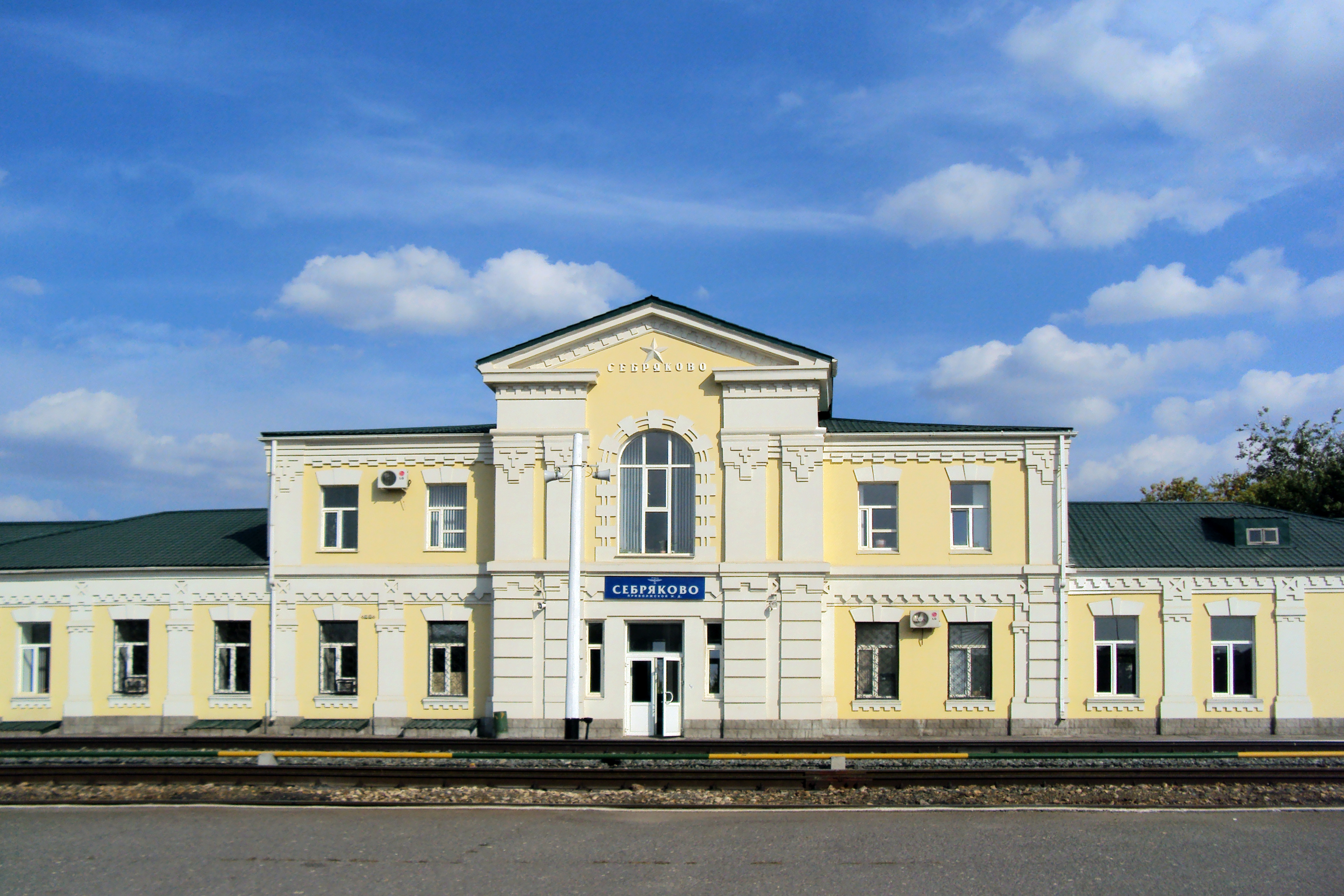 Railhead Sebryakovo